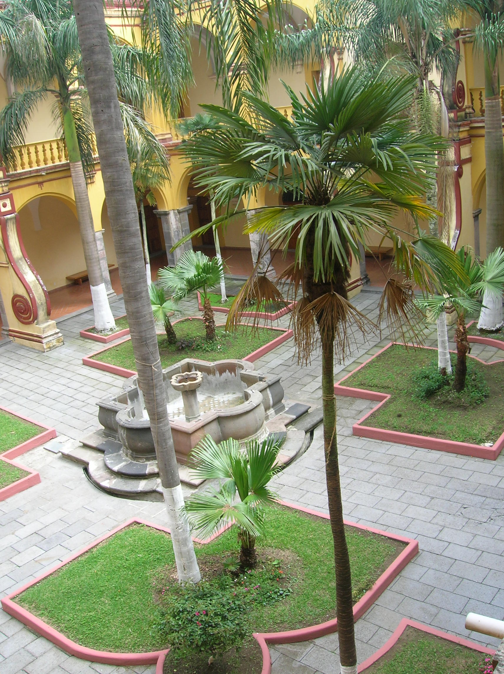 Veracruz Art Museum at Orizaba, Veracruz, Mexico. Patio.